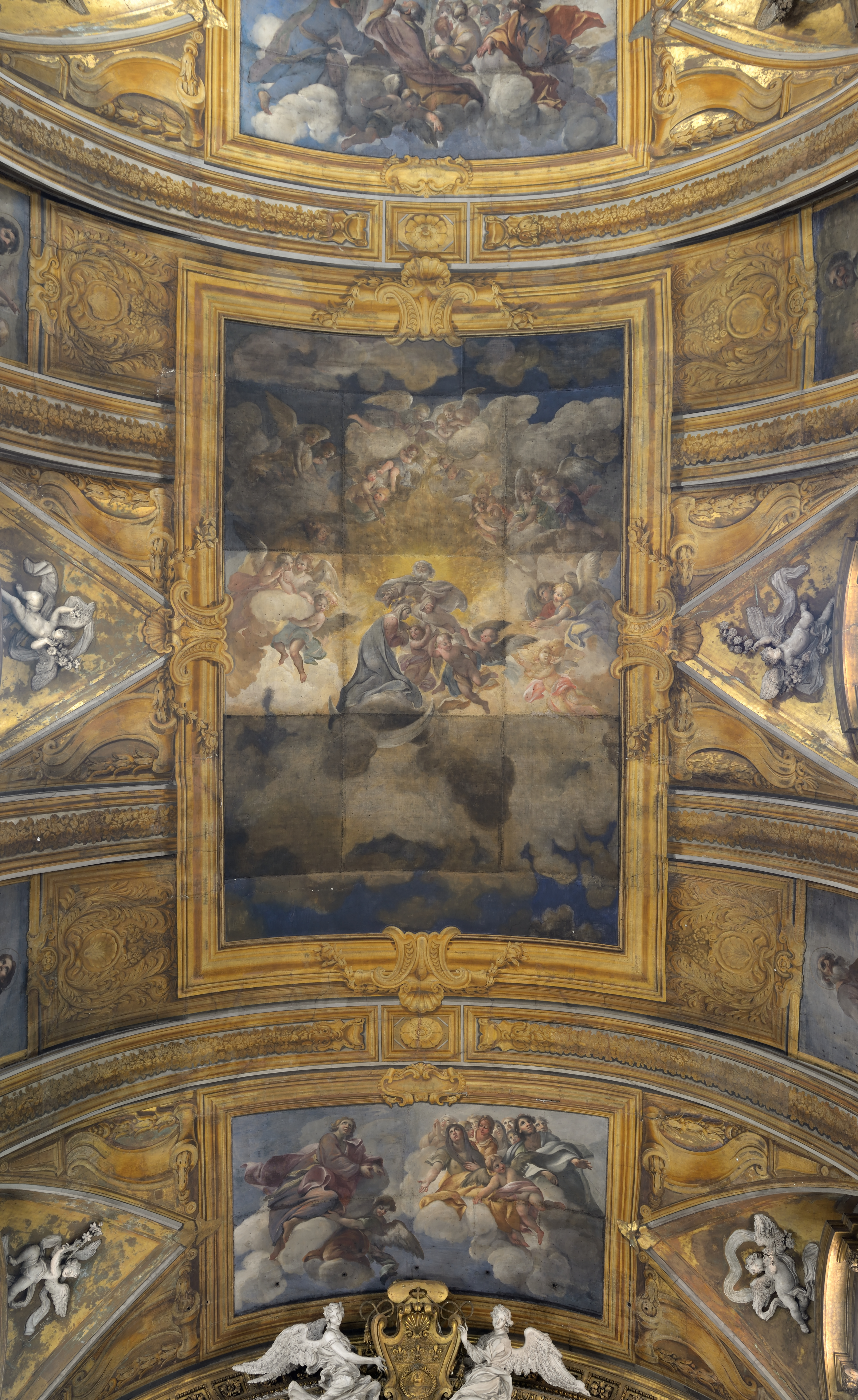 Cieling with fresco of the Ascension ov Virgin Mary by Giacinto Brandi in the Gesù e Maria church in Rome.